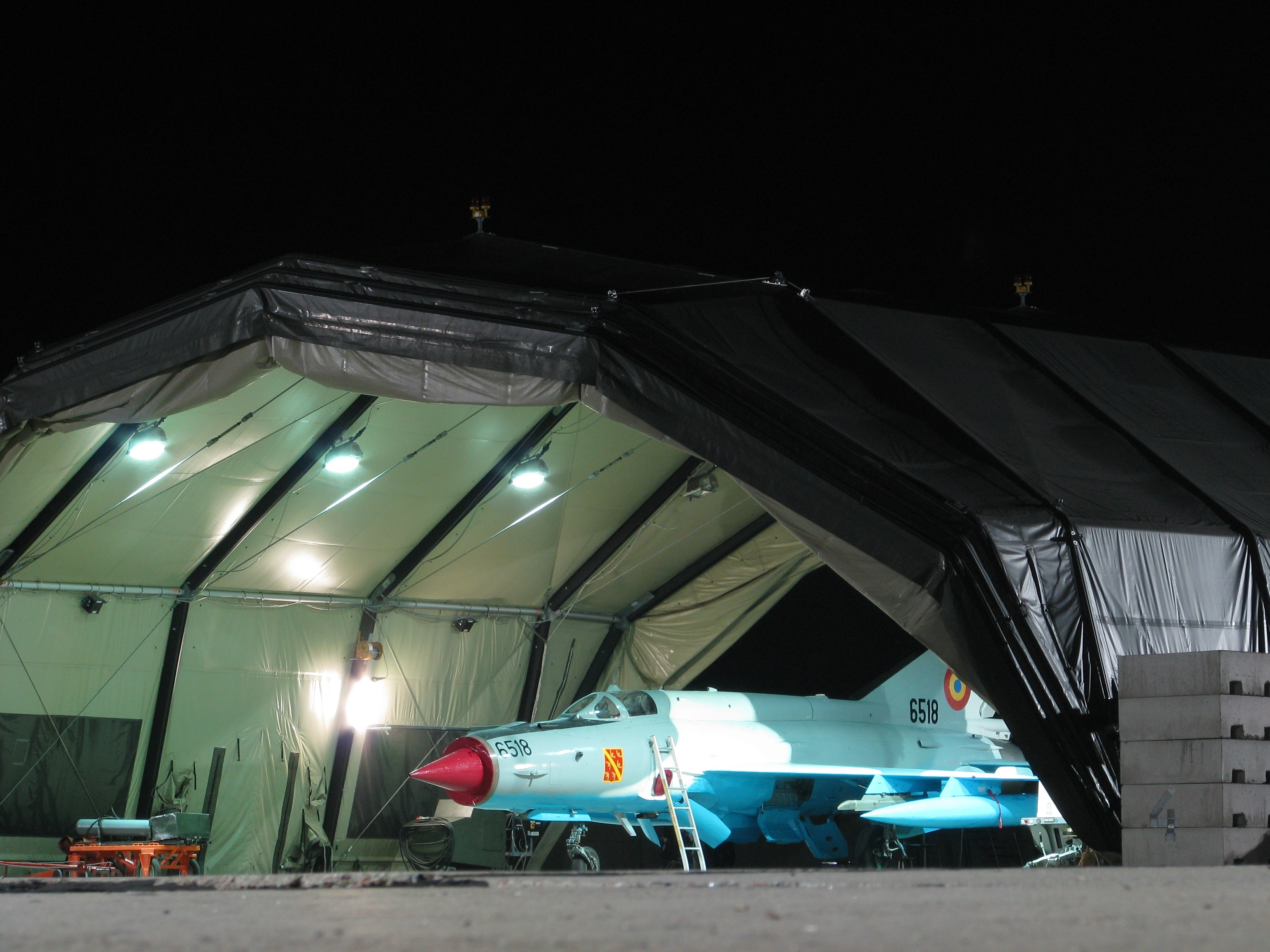 Romanian MiG-21s ready for a night mission.